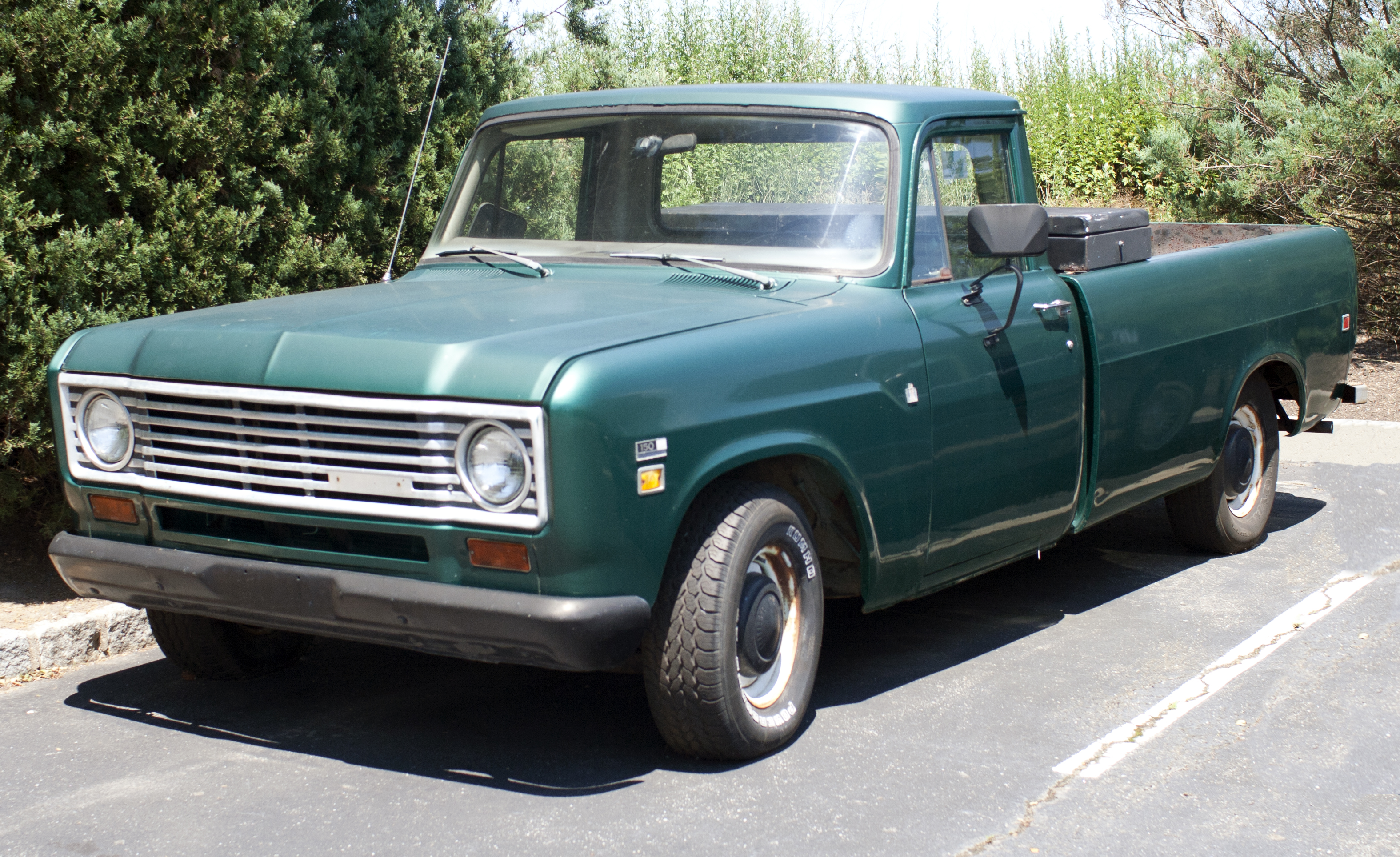 1974 or 75 International 150 Eight pickup truck, 2WD.